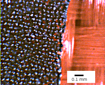 retroreflective band (clothing) - magnified